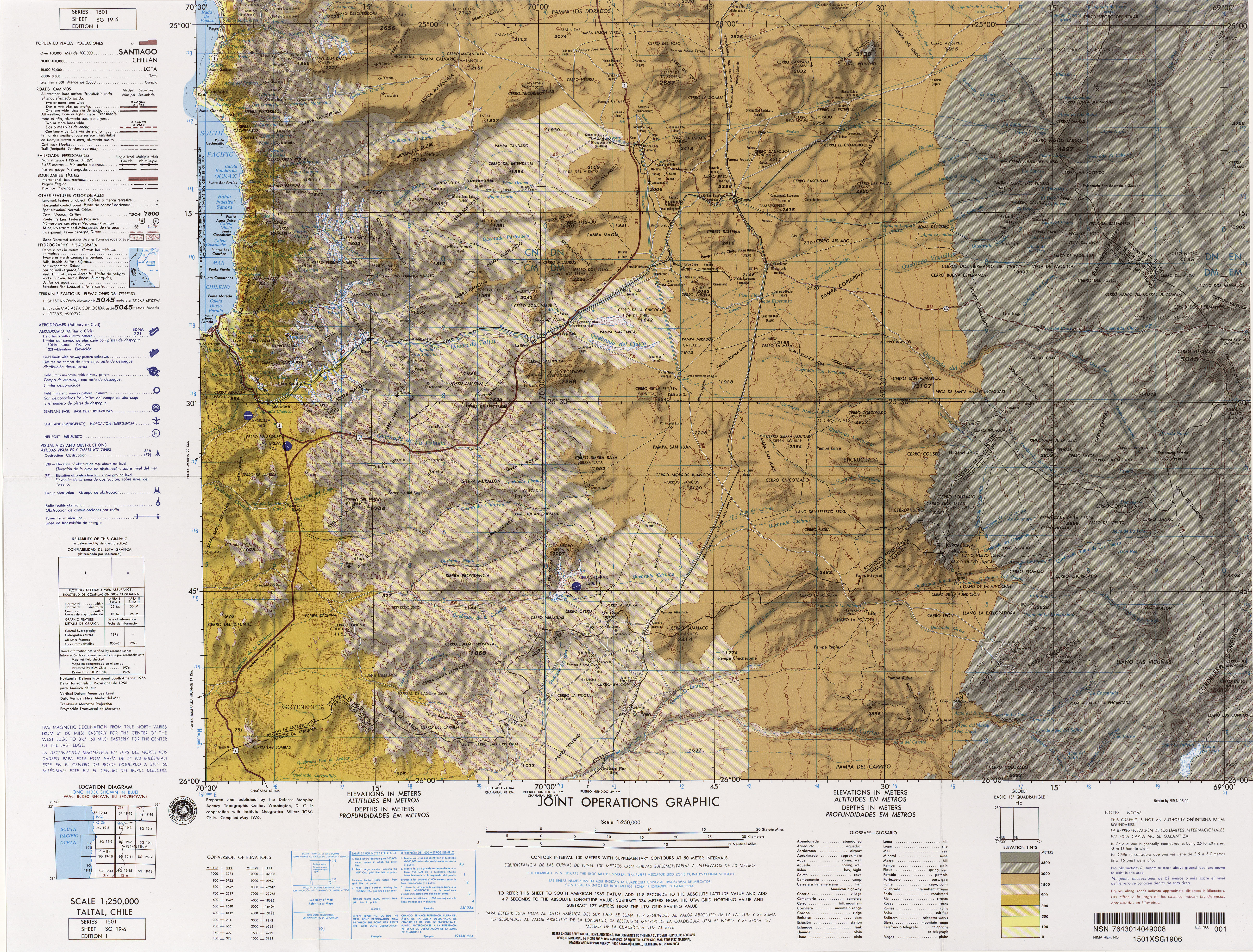 Taltal, tierra adentro